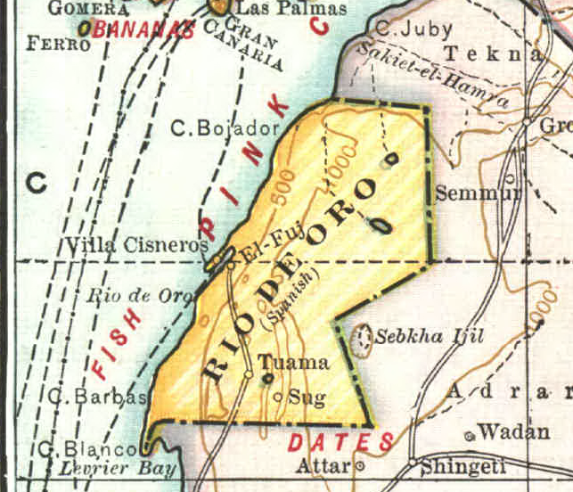 Western Sahara in 1909